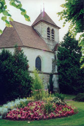 Saint Etienne - Mantes-la-Ville - Yvelines